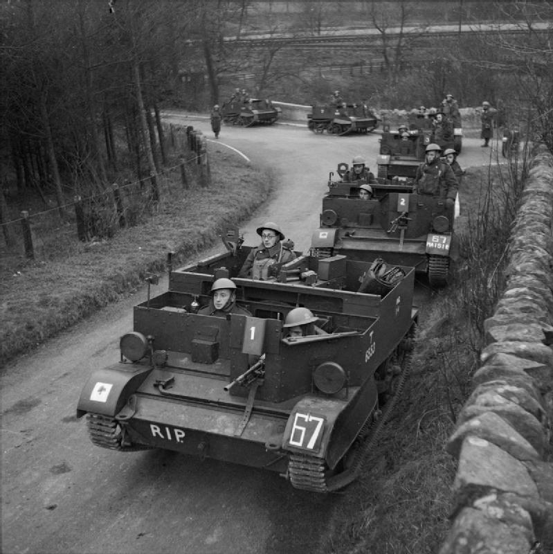 The British Army in the United Kingdom 1939-45 Universal carriers of 2/5th Battalion, the Leicestershire Regiment, 46th (North Midland) Division, Scotland, 5 December 1940.